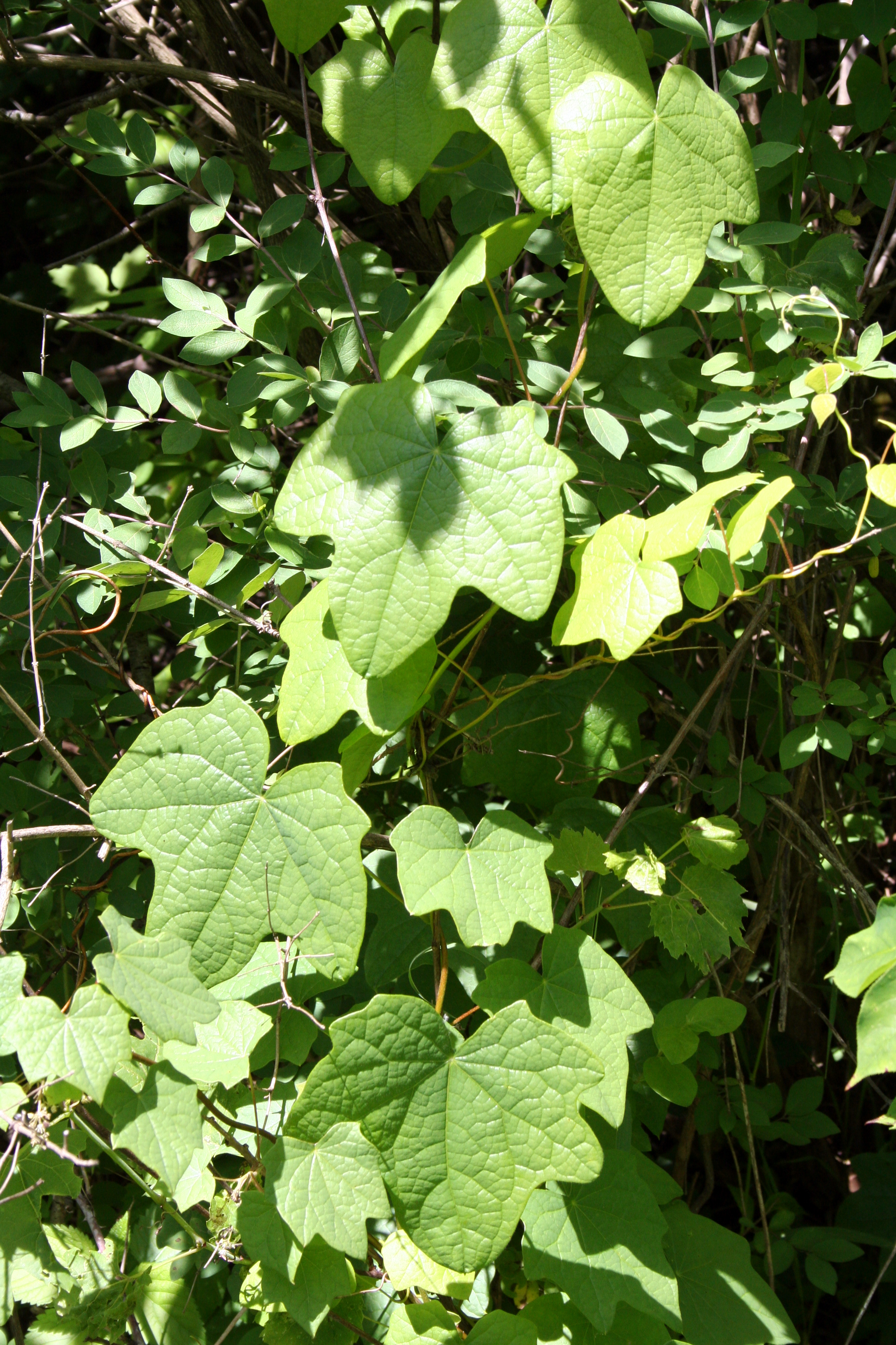 Menispermum canadense (Canadian moonseed) photographed at the Skaneateles Conservation Area, Onondaga County, New York